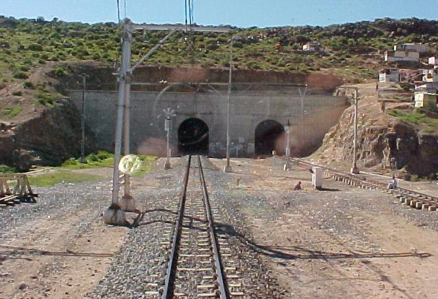 Hex River Tunnel 1, Western Portal Location: Hex River Valley, De Doorns, Western Cape